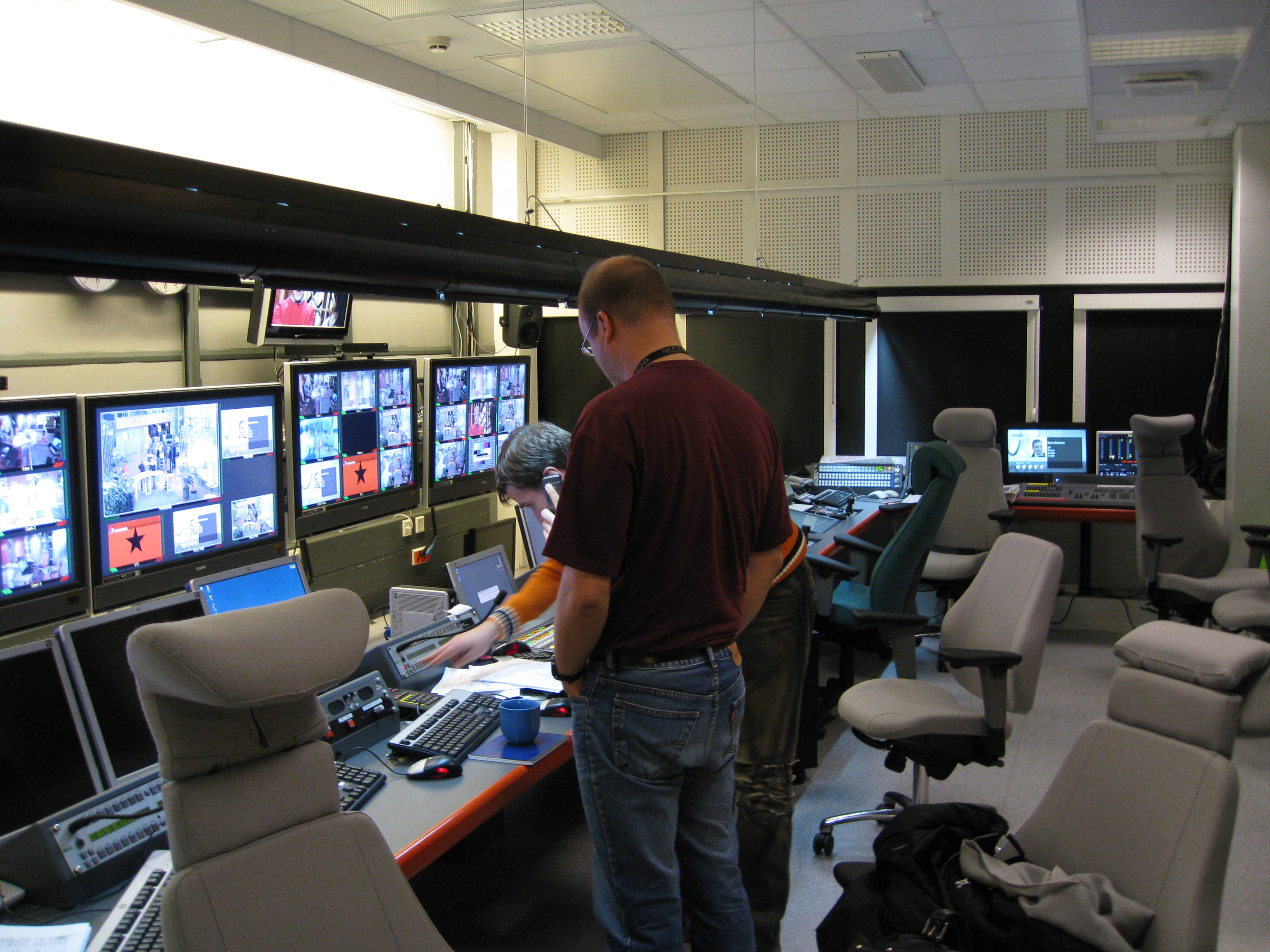 This is how monitoring room looks when broadcasting on television